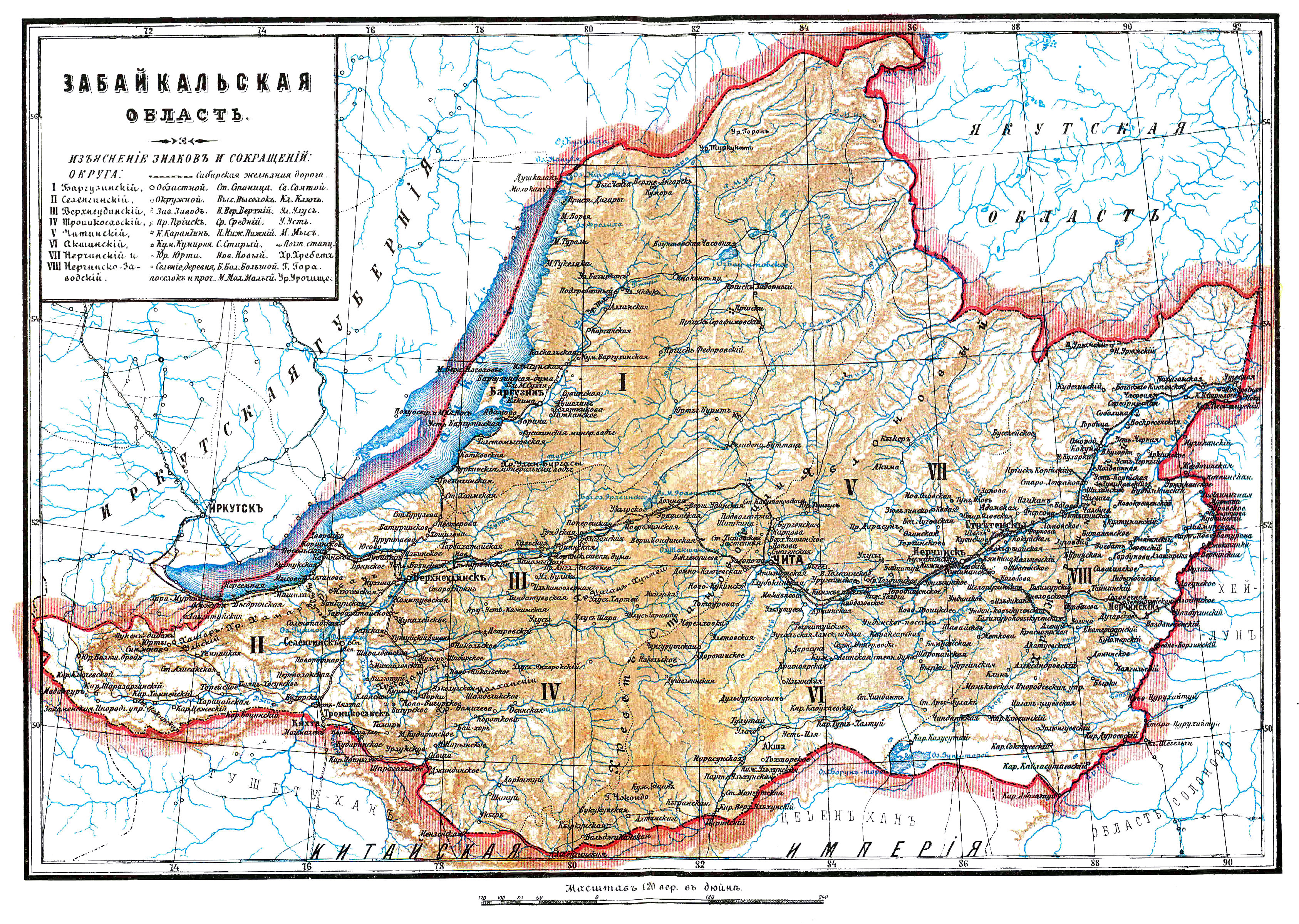 Illustration from Brockhaus and Efron Encyclopedic Dictionary (1890—1907)